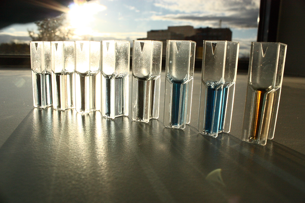 Bradford protein assay. Bradford reagent reacts with proteins giving blue colour. Intensity of the colour reflects protein contents which can be measured spectrophotometrically.